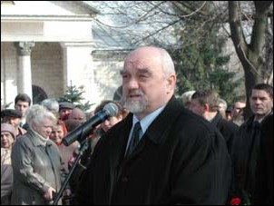 Igor Smirnov dando un discurso